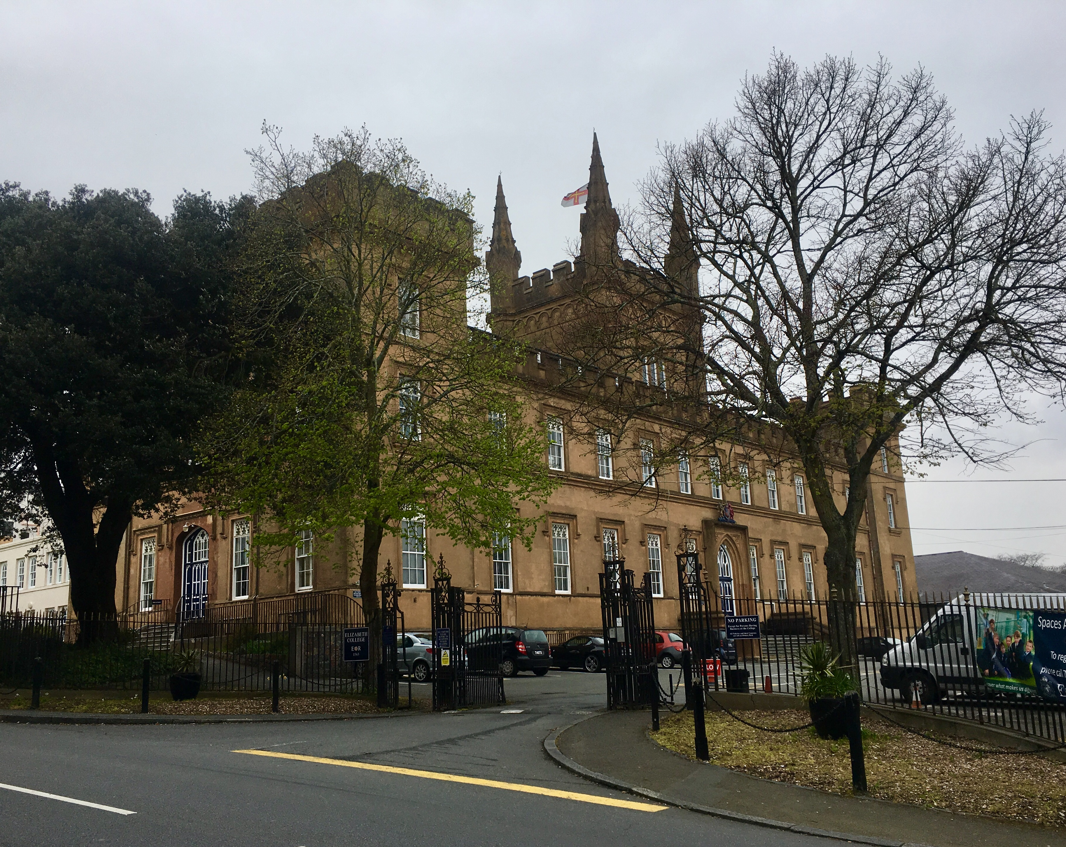 A picture of Elizabeth College from the south face entrance.